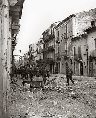 Infantry from the Loyal Edmonton Regiment and Sherman tanks from the Three Rivers Regiment during the Battle for Ortona.